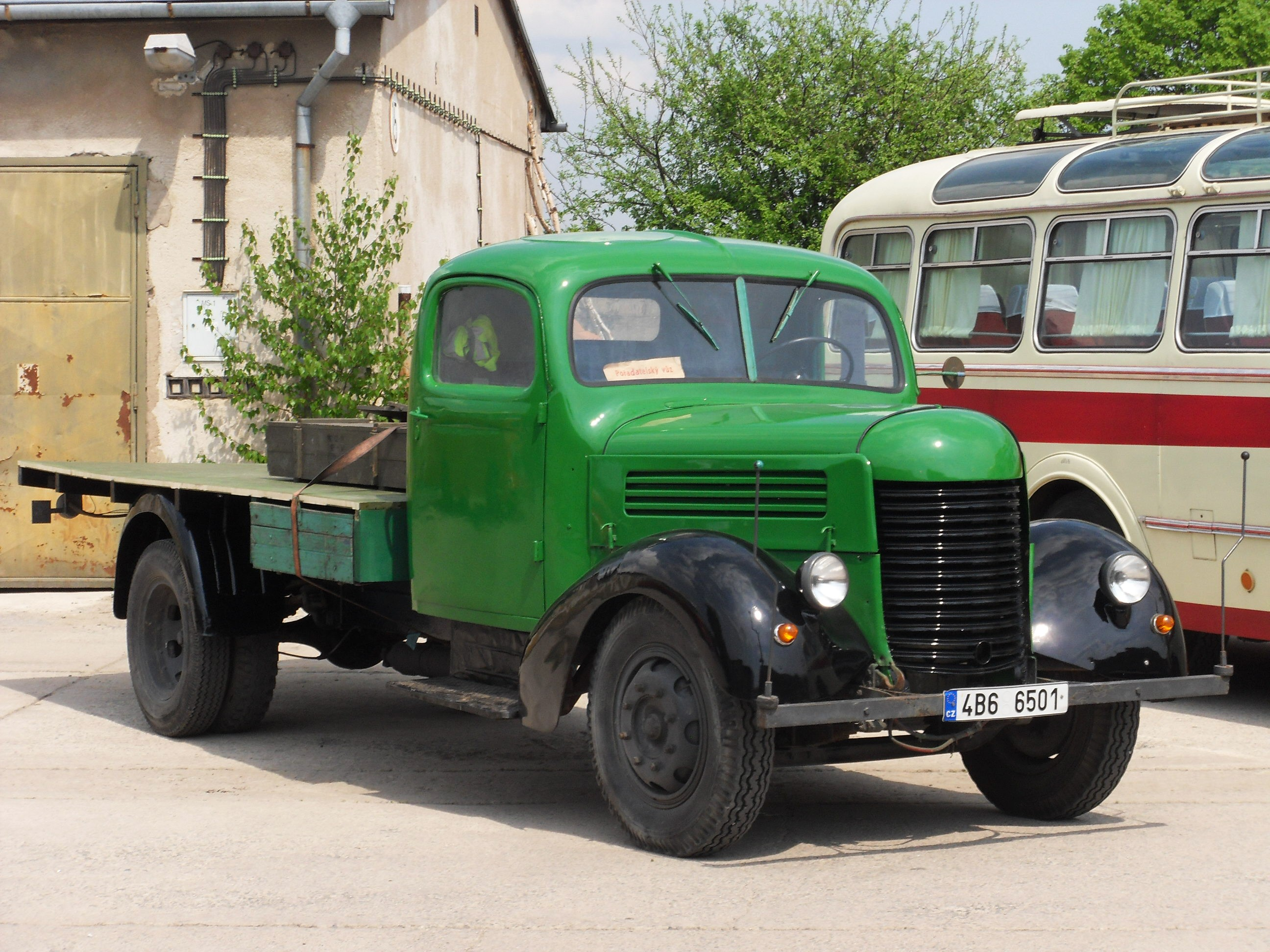 Historical truck Praga RND, depository of Technical Museum in Brno, Czech Republic